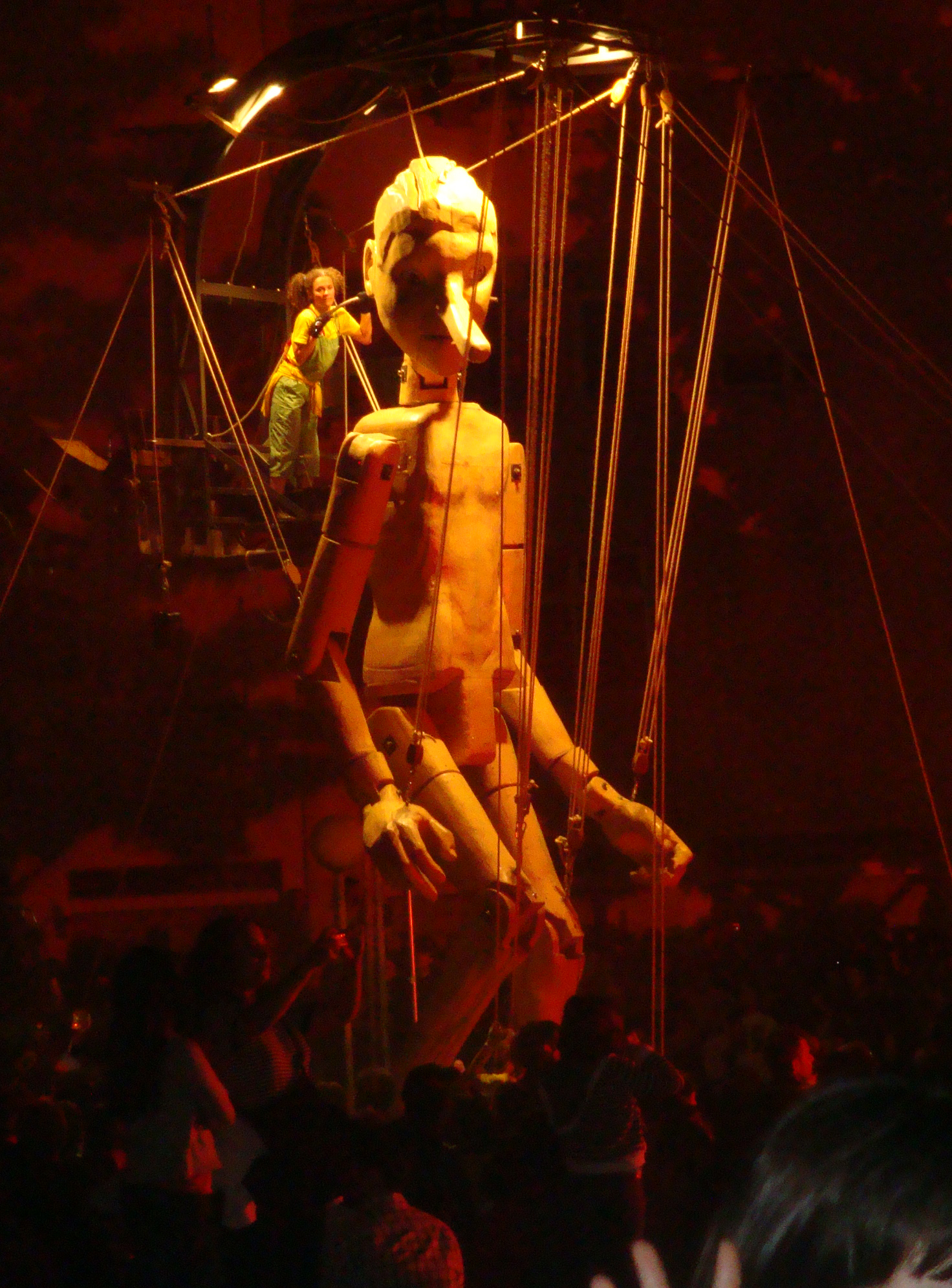 Espectáculo durante o festival Imaginarius 2009